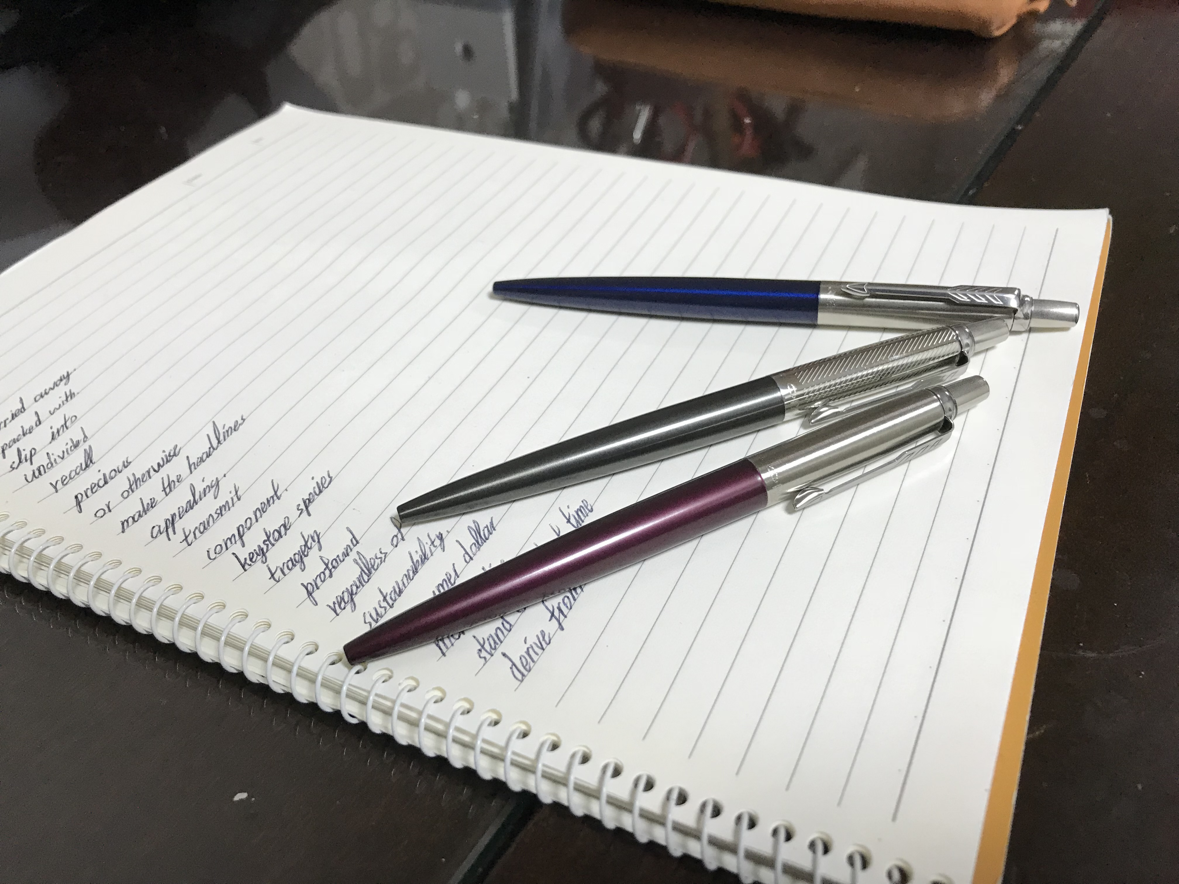 After the company was sold to Newell Rubbermaid, the design of products were changed. Jotter was the one of them.